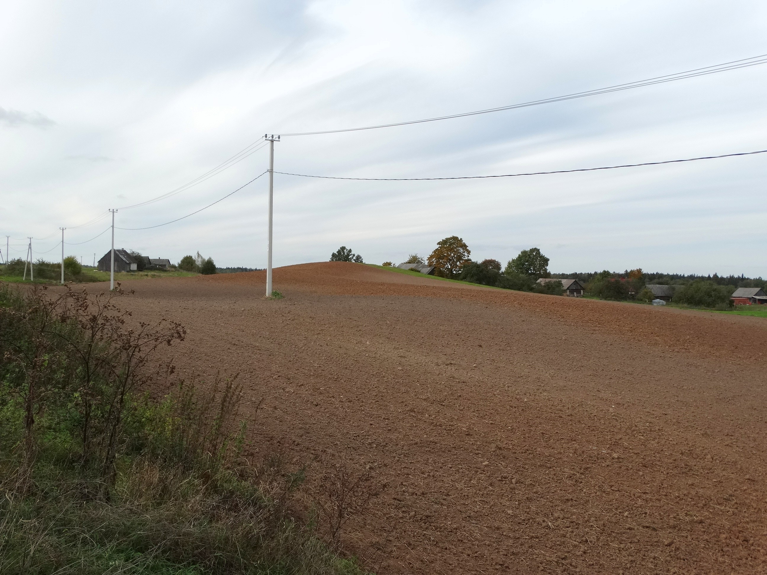 Kovaičiai, Kaišiadorys District, Lithuania